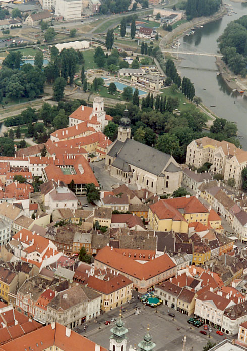 Győr - Győr-Moson-Sopron megye - Hungary - Europe